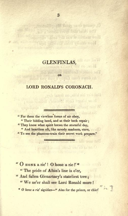 First page of Walter Scott's poem "Glenfinlas" as published in his "Ballads and Lyrical Pieces" (1806).